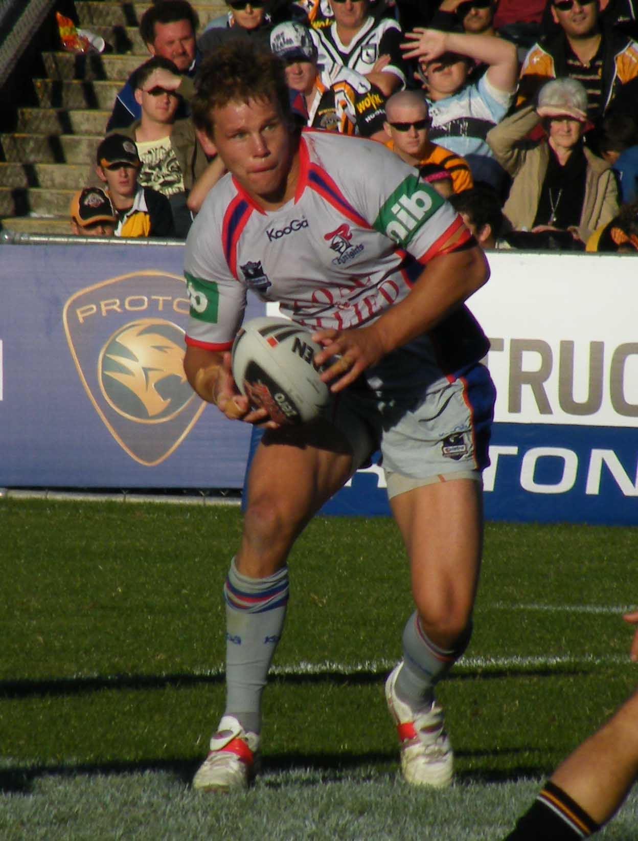 Matt Hilder of the Newcastle Knights